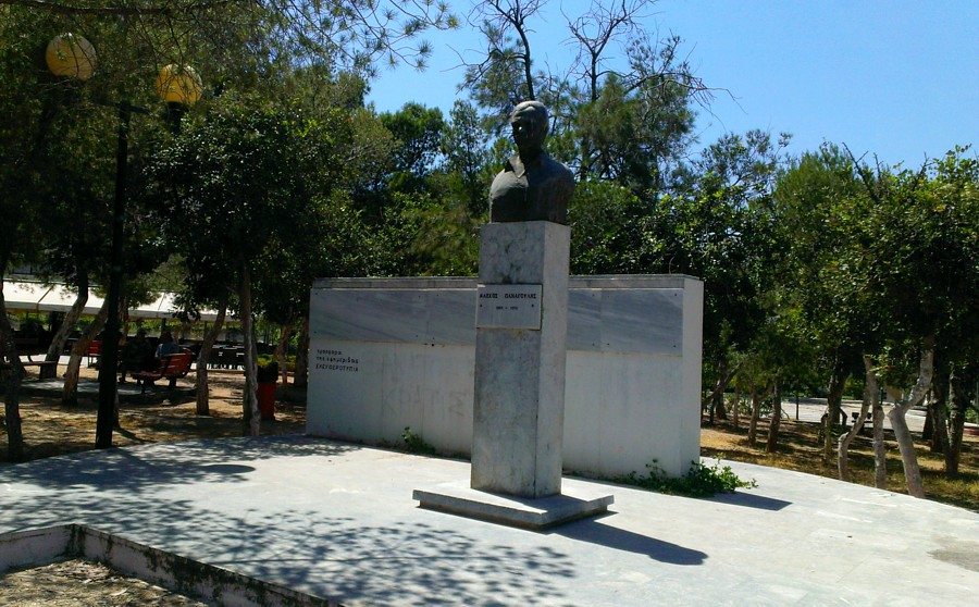 Monument of Alexandros (Alekos) Panagoulis in the Alex.Panagoulis square of Ag.Dimitrios, Attica, Greece.